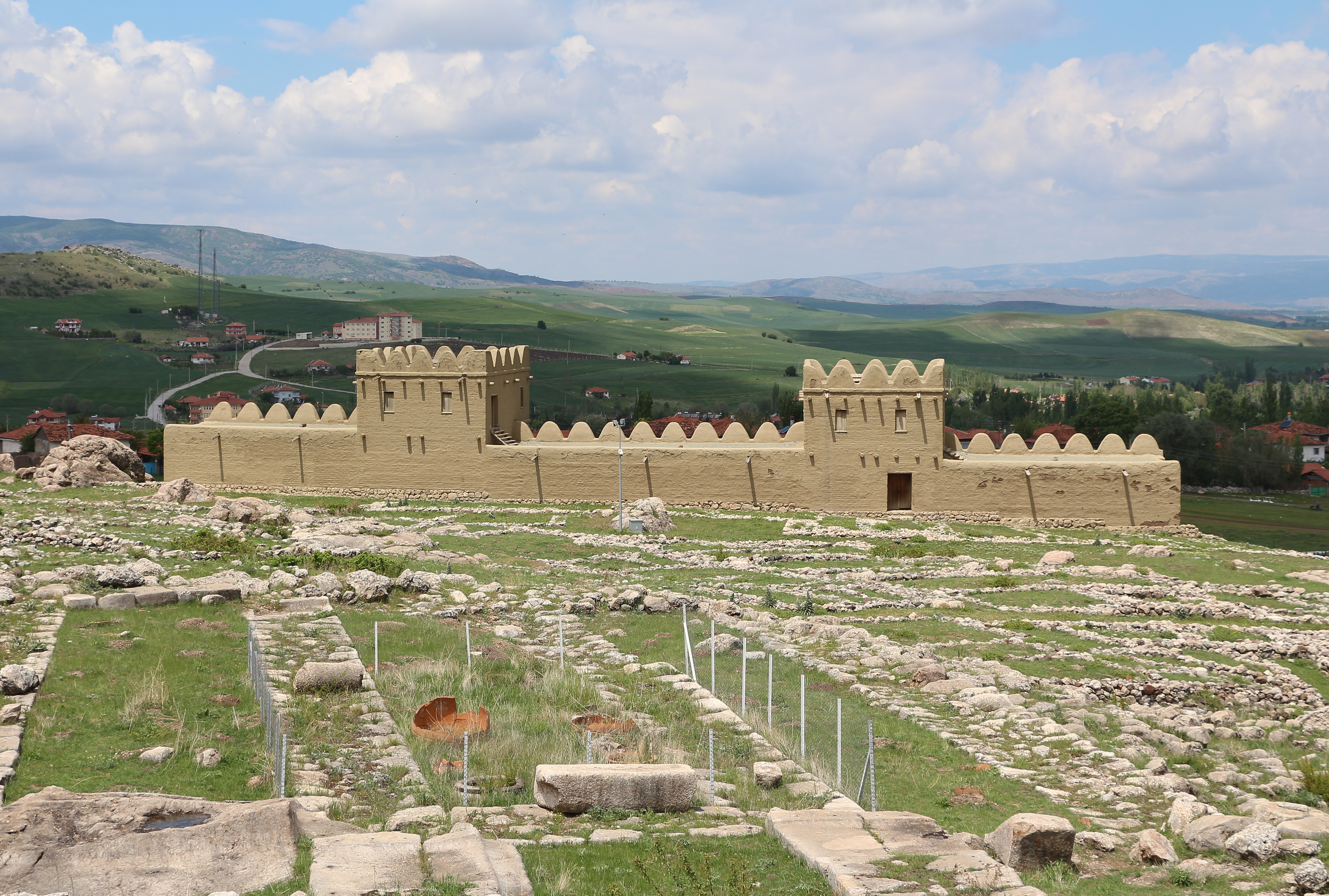 Reconstruction of a part of the Hittite city wall, Lower City of Hattusa, Turkey